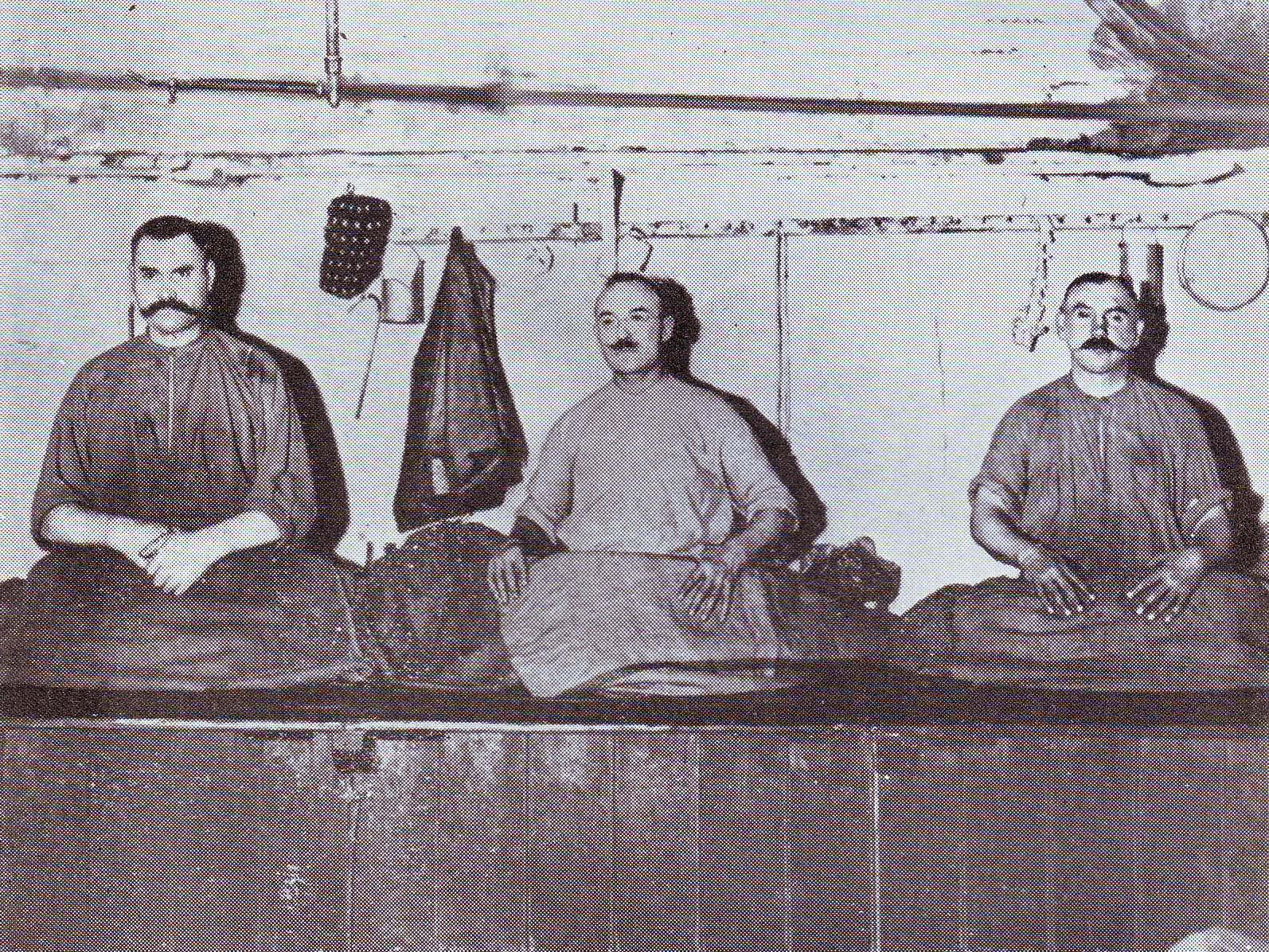 The tubbers. C. W. Martin & Sons, Ltd.